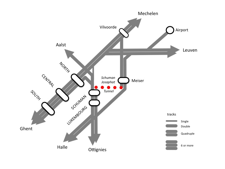 selected lines around Brussels showing purpose of Schuman Josaphat tunnel